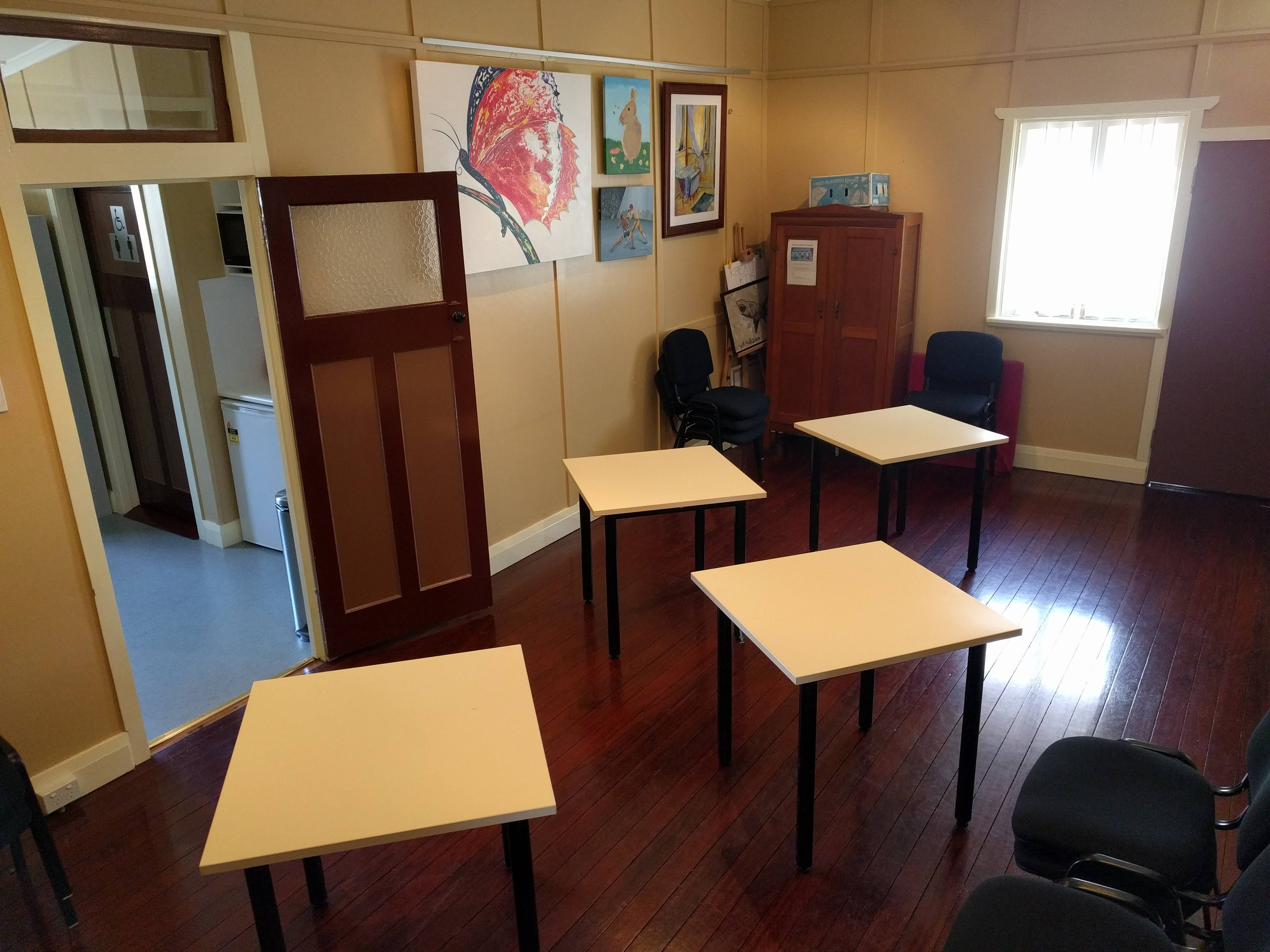 Community Room available for hire through Gold Coast Council.